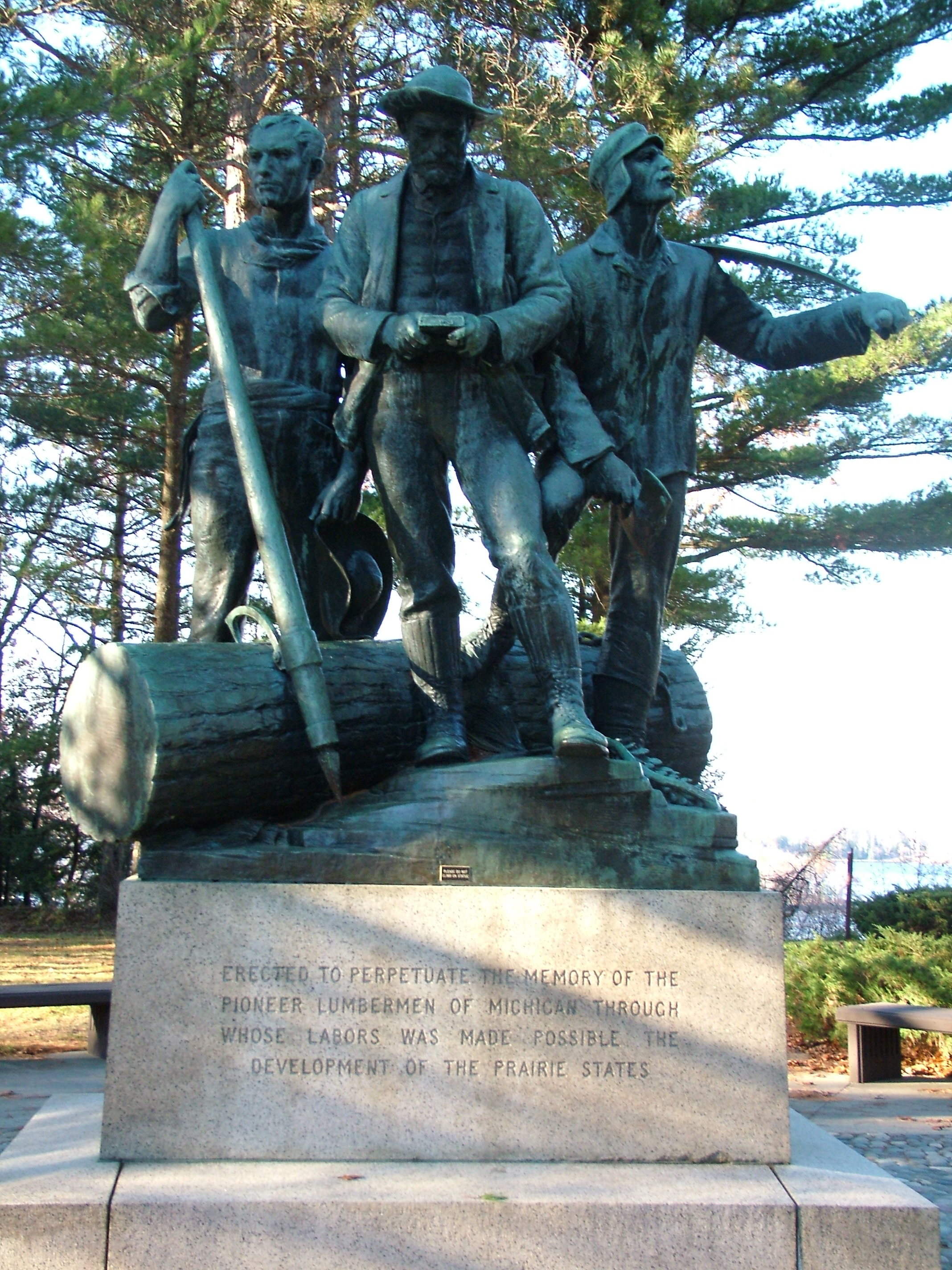 14 foot bronze statue commemorating the individuals who contributed service to the logging industry in Michigan.